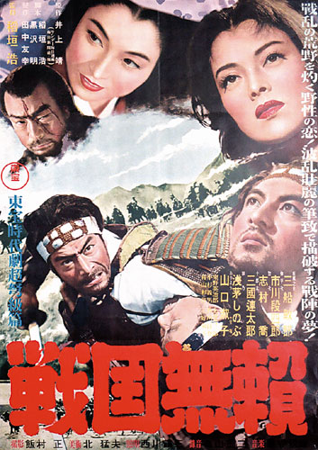 Movie poster for 1952 Japanese film Sword for Hire (Sengoku burai).